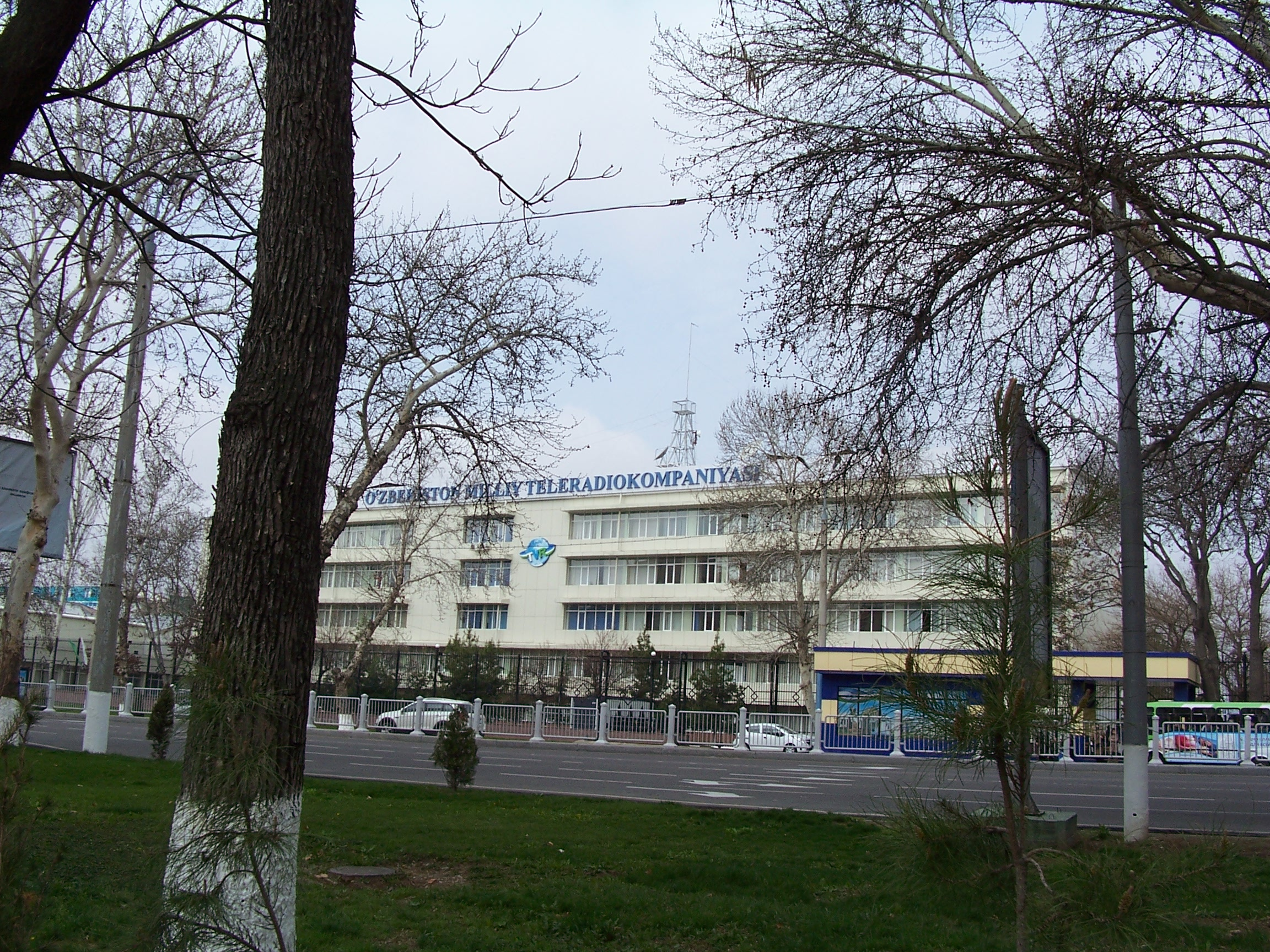 Uzbekistan National Television and Radio company building, Tashkent Oʻzbekcha/ўзбекча: Oʻzbekiston milliy teleradiokompaniyasi binosi, Toshkent